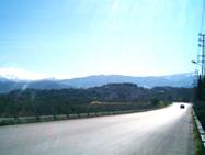 Amioun 5 min from the sea and 40 min to the highest summit in the Middle East Amioun 5 min from the sea and 40 min to the highest summit in the Middle East